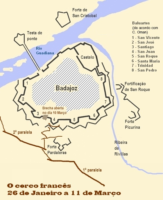 Schematic of the square and the siege of Badajoz made by the forces of Soult from 26 January to 11 March 1811.